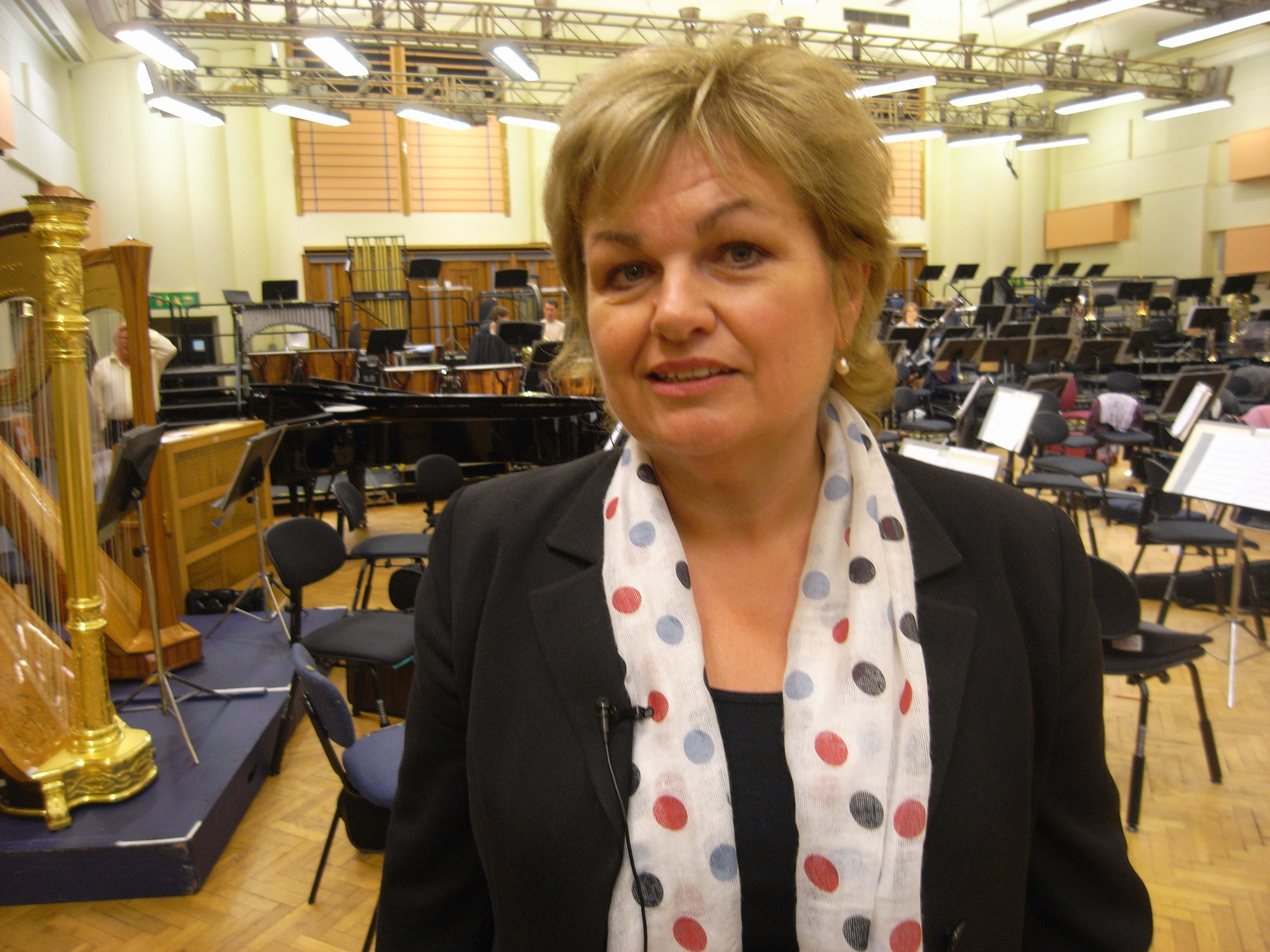 British soprano Susan Bullock at a rehearsal of the BBC Symphony Orchestra for the 2011 Last Night of the Proms, in the Maida Vale Studios, London, UK (see also [1])